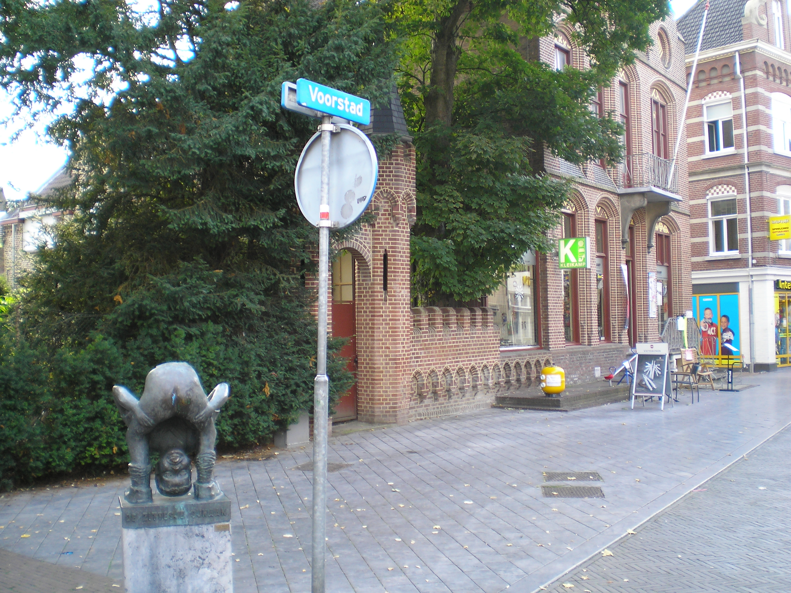 Voorstad in Sittard in the Netherlands